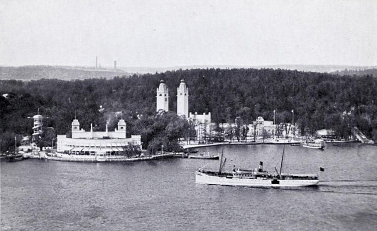 Konstindustriutställningen 1909 in Stockholm